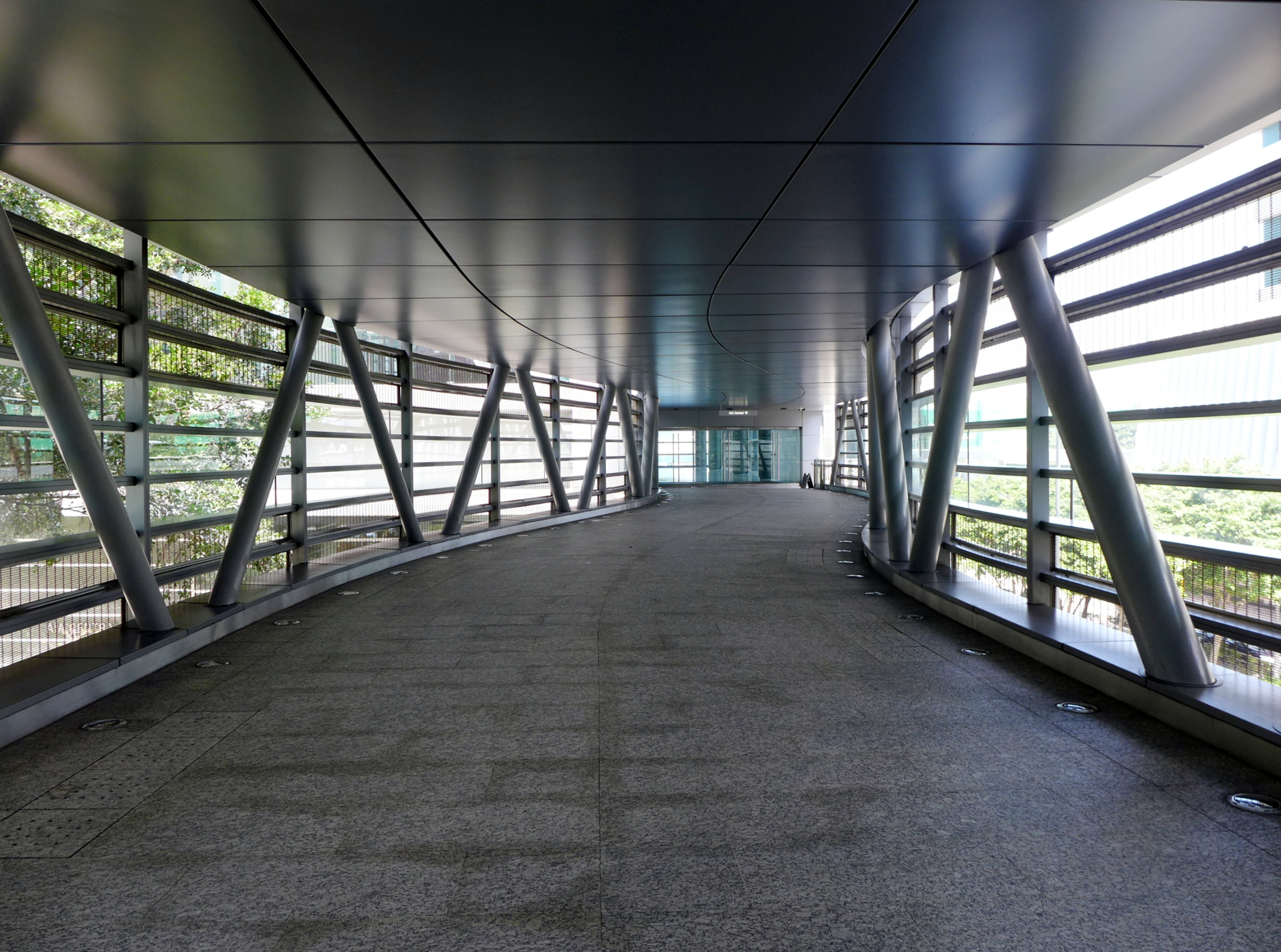 AIA Tower Bridge access